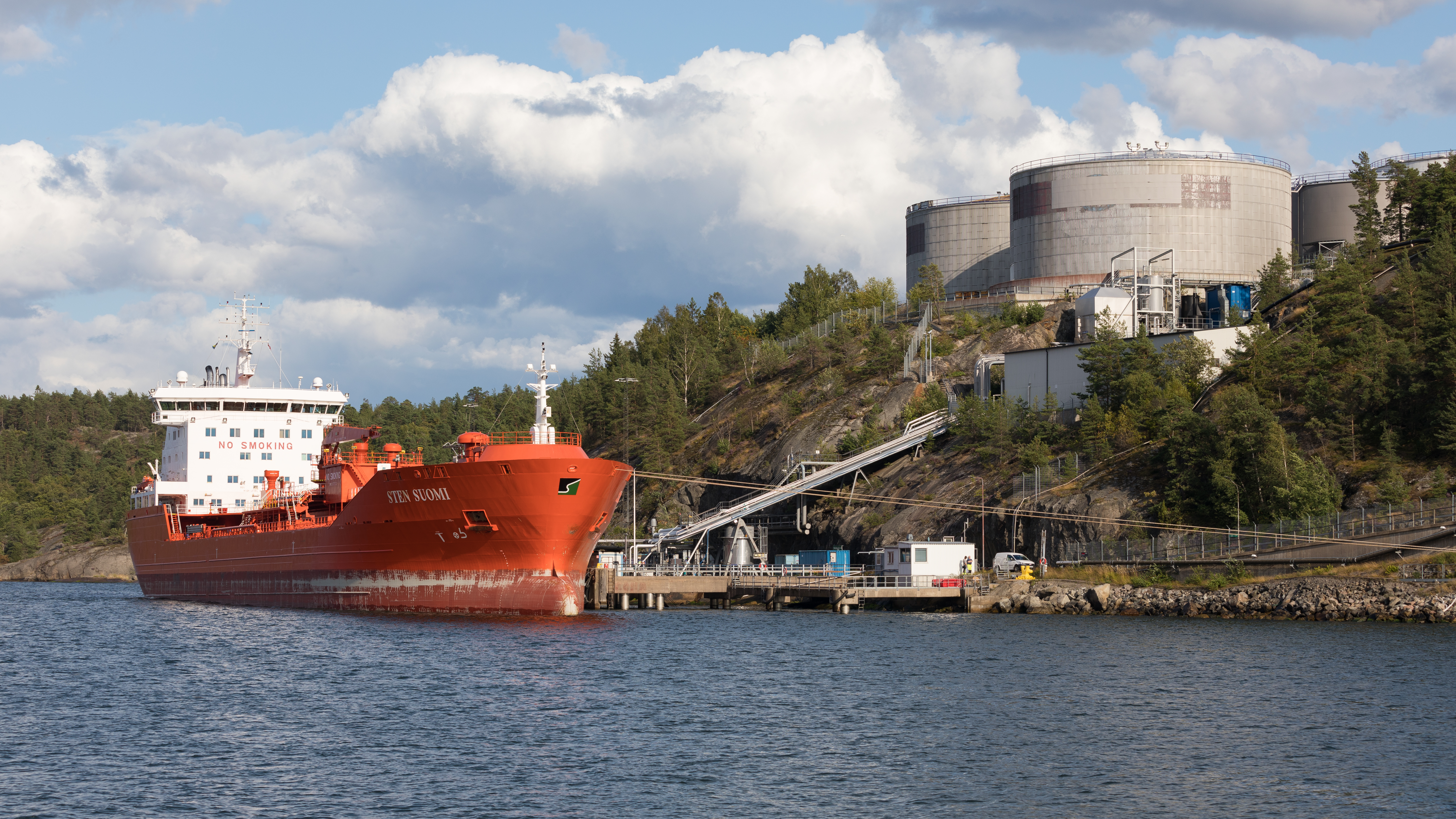 Oil/Chemical tanker Sten Suomi moored at the fuel depot (Bergs Oljehamn) of Circle K in Stockholm